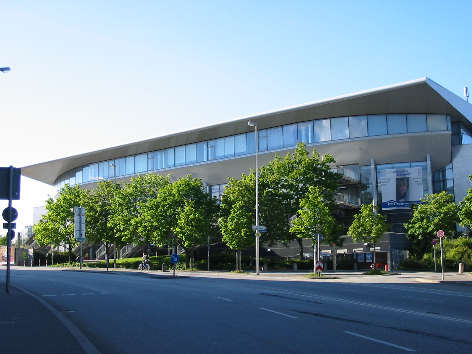 Ostseehalle in Kiel, Germany (View from south)